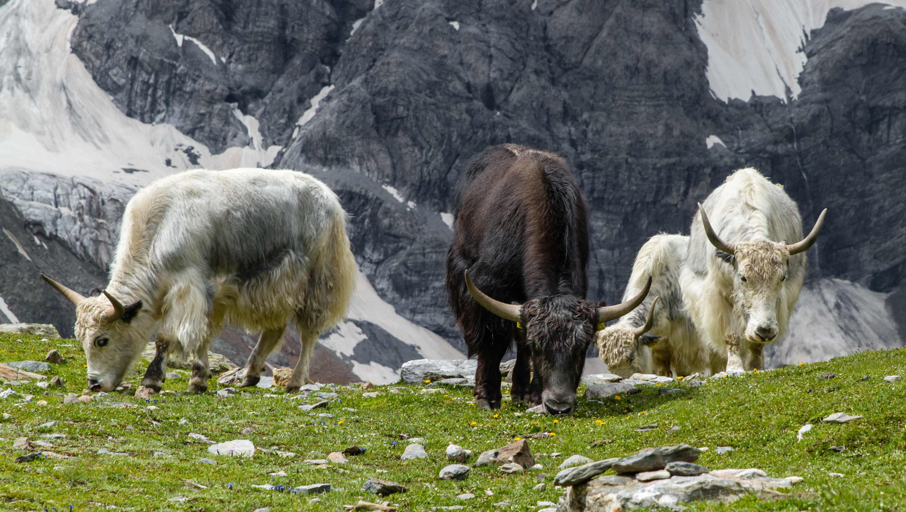 Grazing wild yaks in South Tyrol.